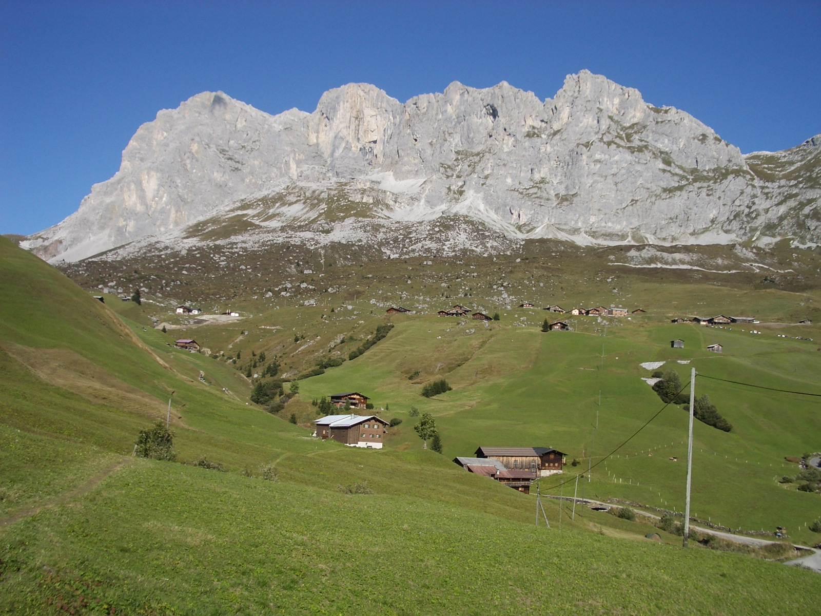 Scheienfluh, St. Antönien GR, Switzerland